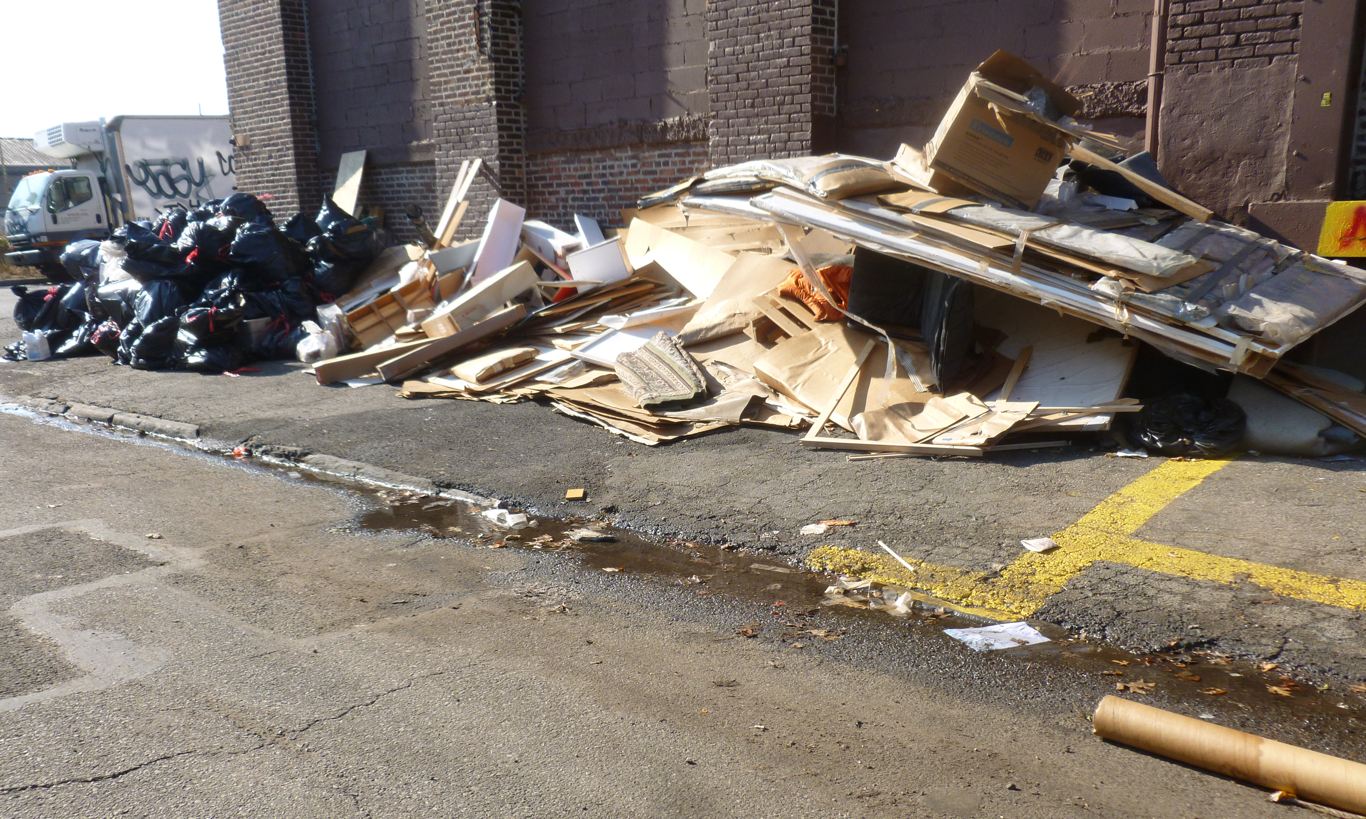 In Oct 2012 the hurricane hit the Gowanus area of Red Hook. Pictured is the refuse from one artist's studio.